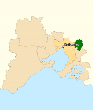 This image incorporates data that is: © Commonwealth of Australia (Australian Electoral Commission) 2009 Division of Casey 2010